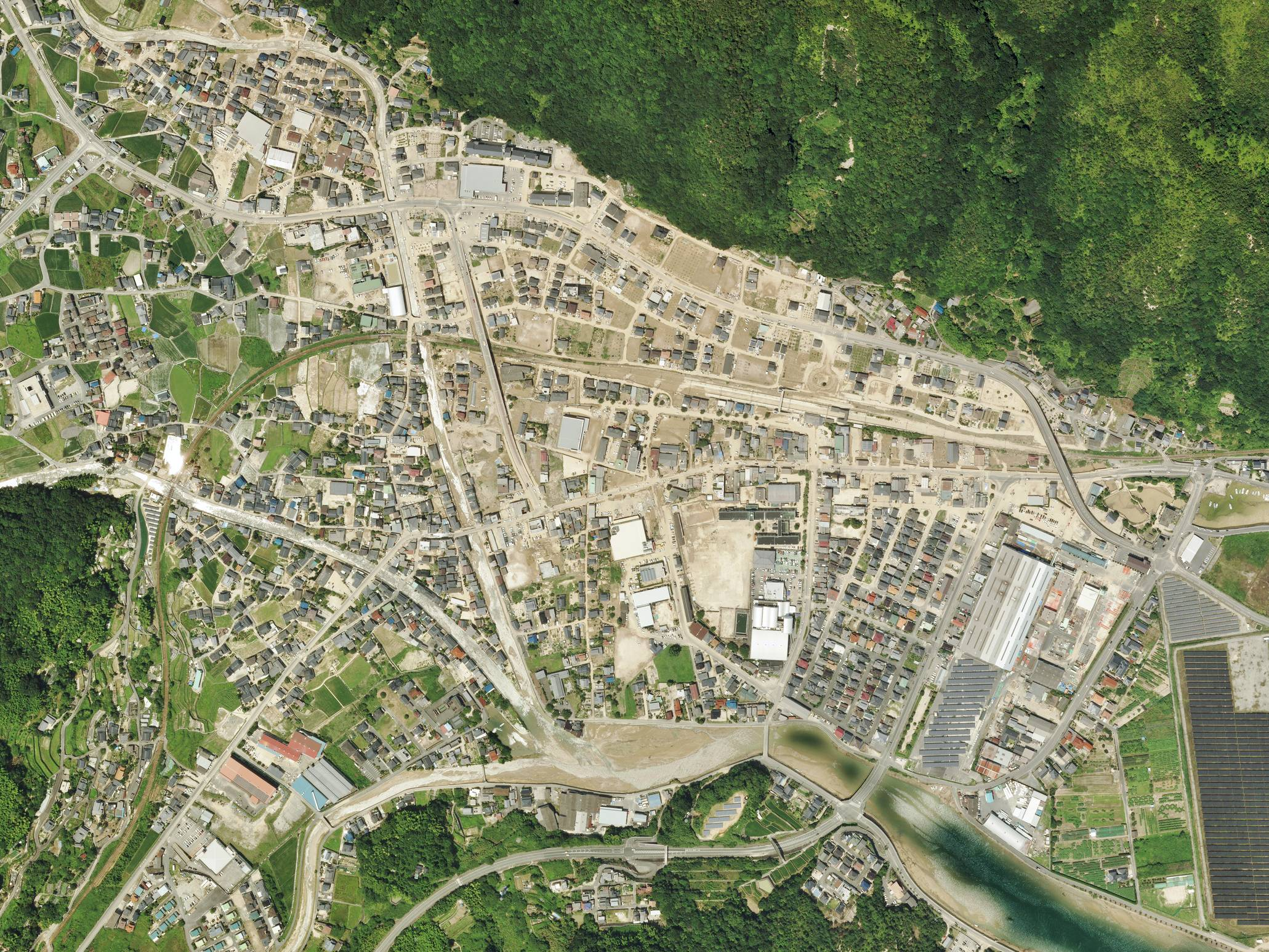 Central Yasuura, Kure, Hiroshima.